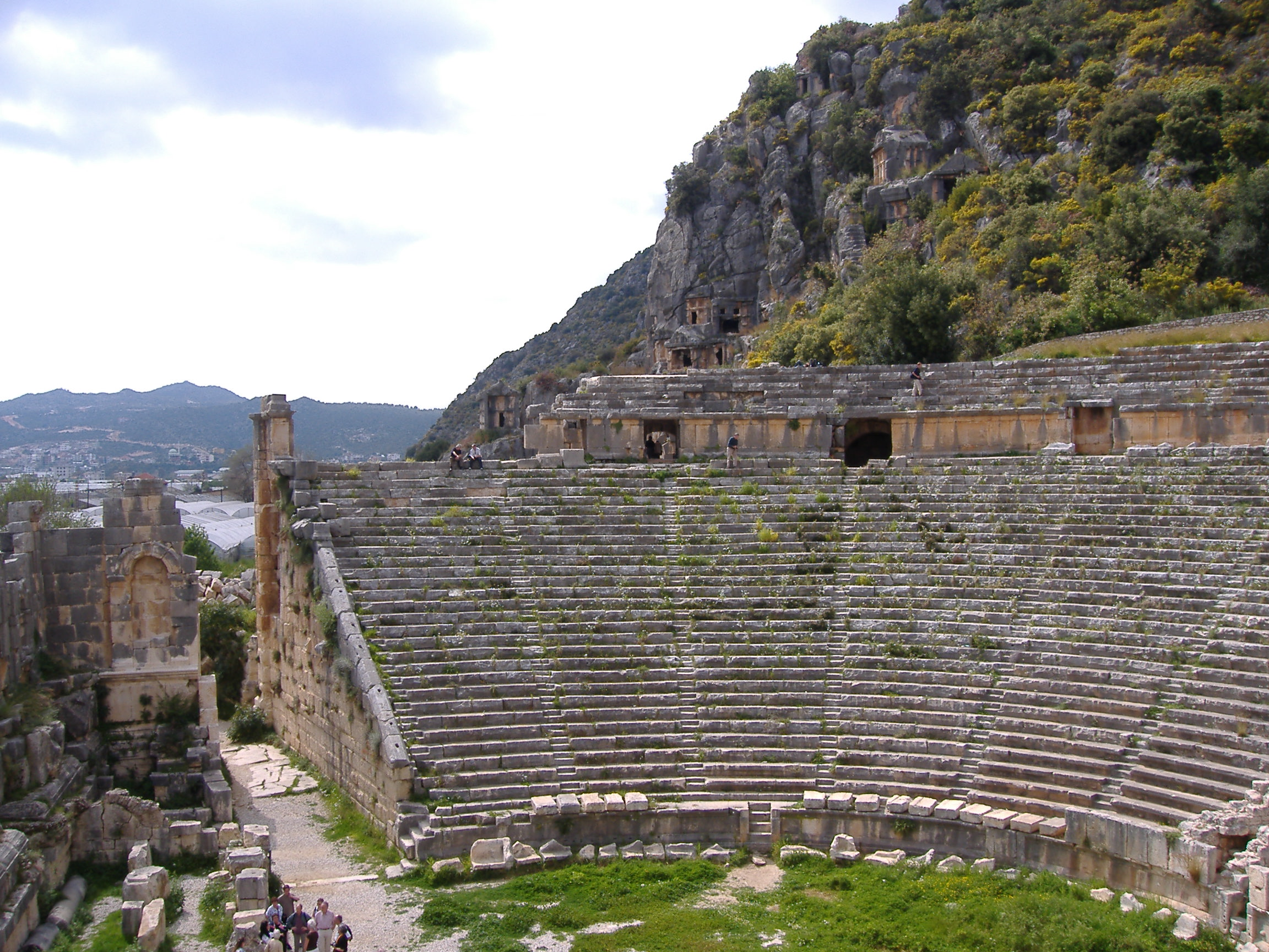 own picture, 30th March 2006